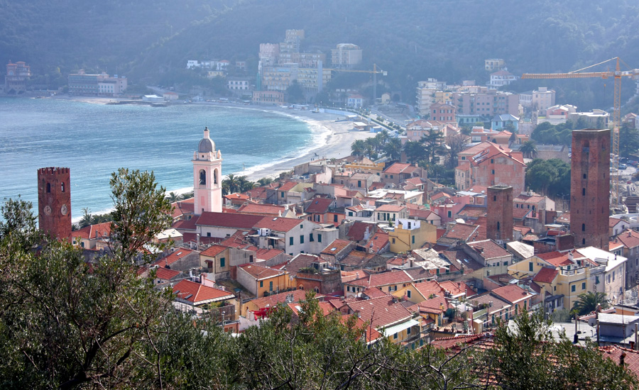 Noli landscape